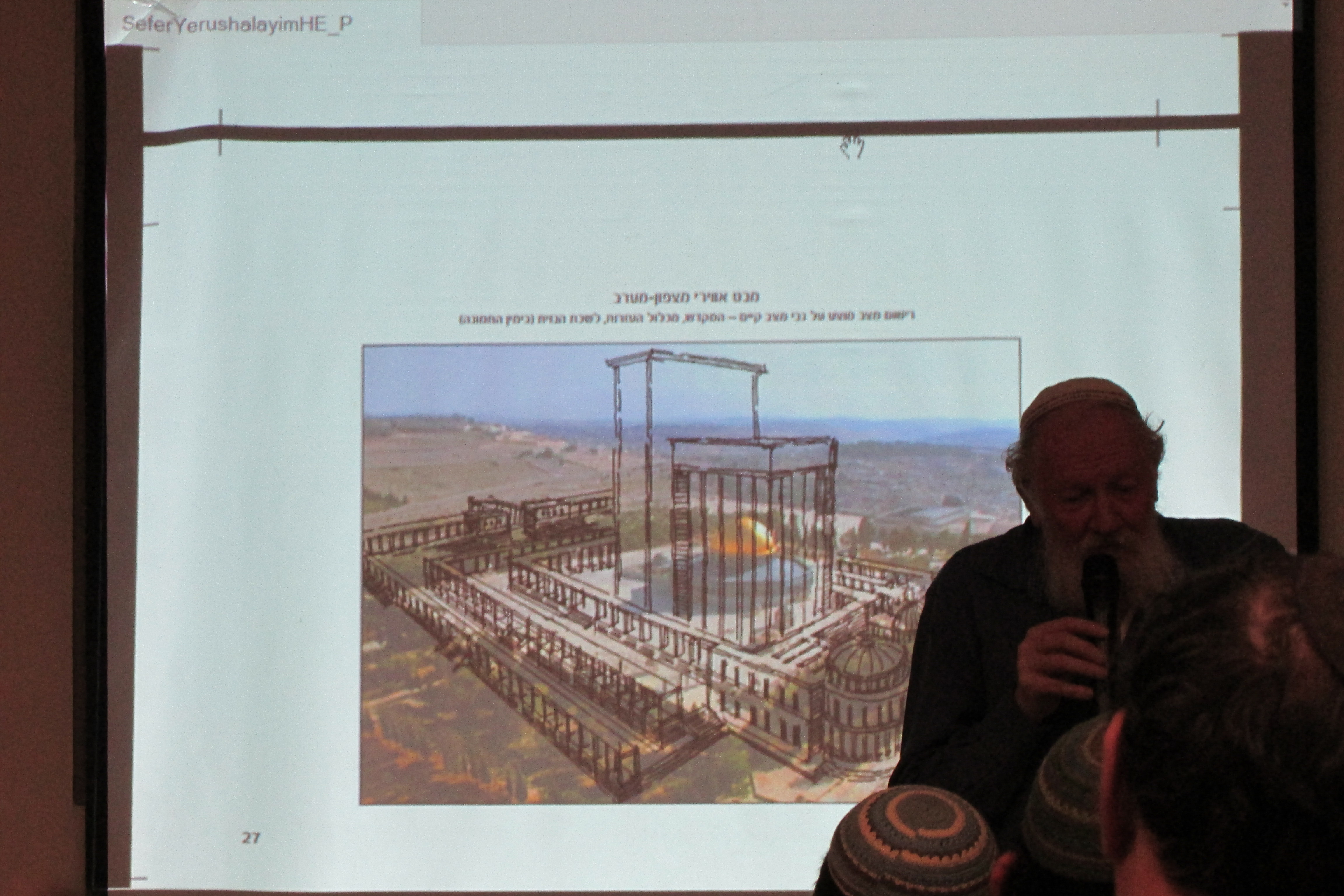 Yehuda Etzion presenting plans for the building of the temple in Jerusalem.